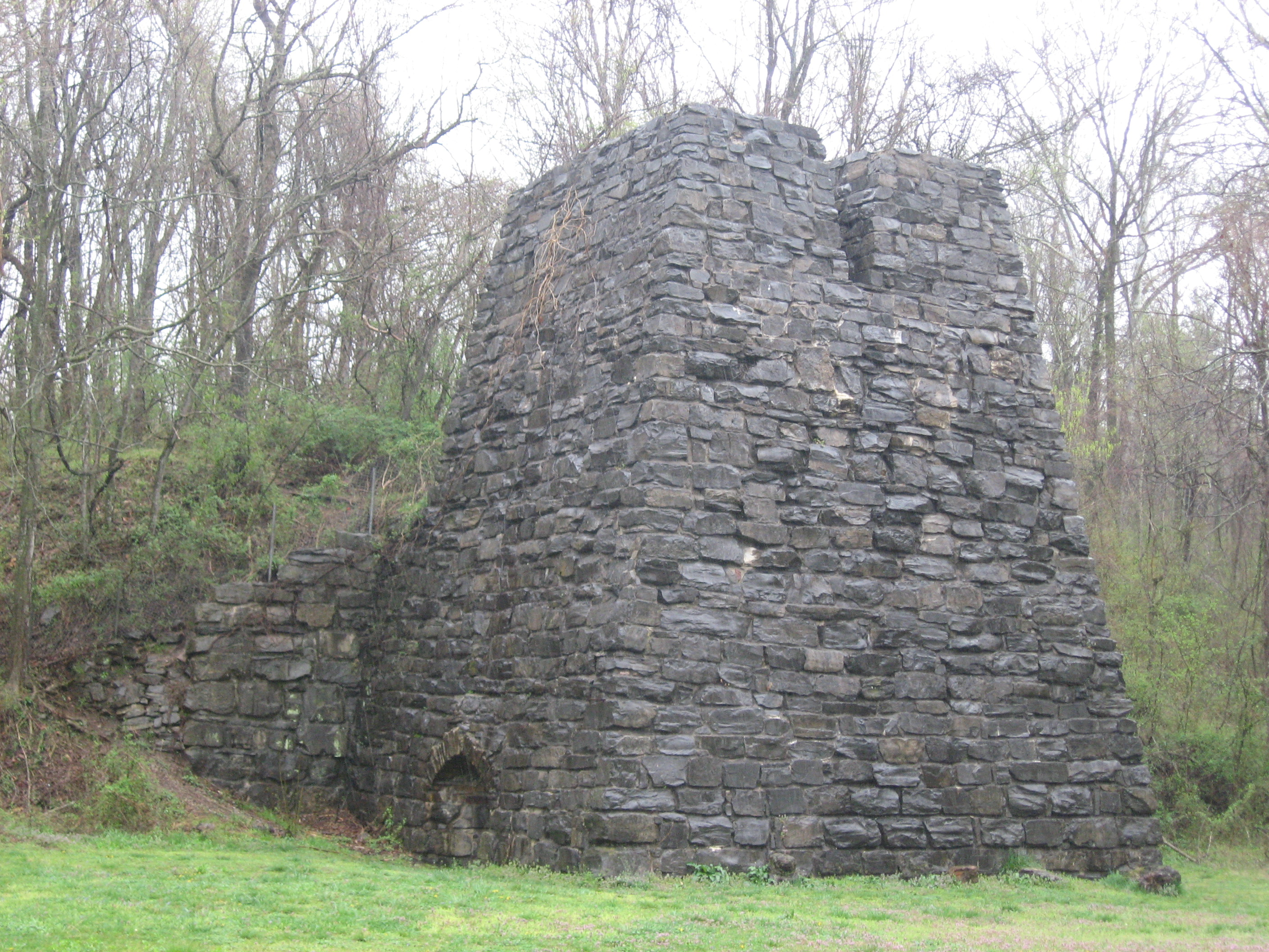 View from the south of the Illinois Iron Furnace, located along Iron Furnace Road north of Rosiclare in Stone Church Precinct, Hardin County, Illinois, United States. Built in 1812, it is listed on the National Register of Historic Places, and it is surrounded by a public park with picnic grounds.